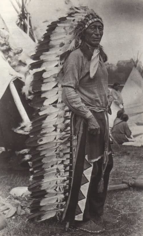 Chief Iron Tail in Long Bonnet